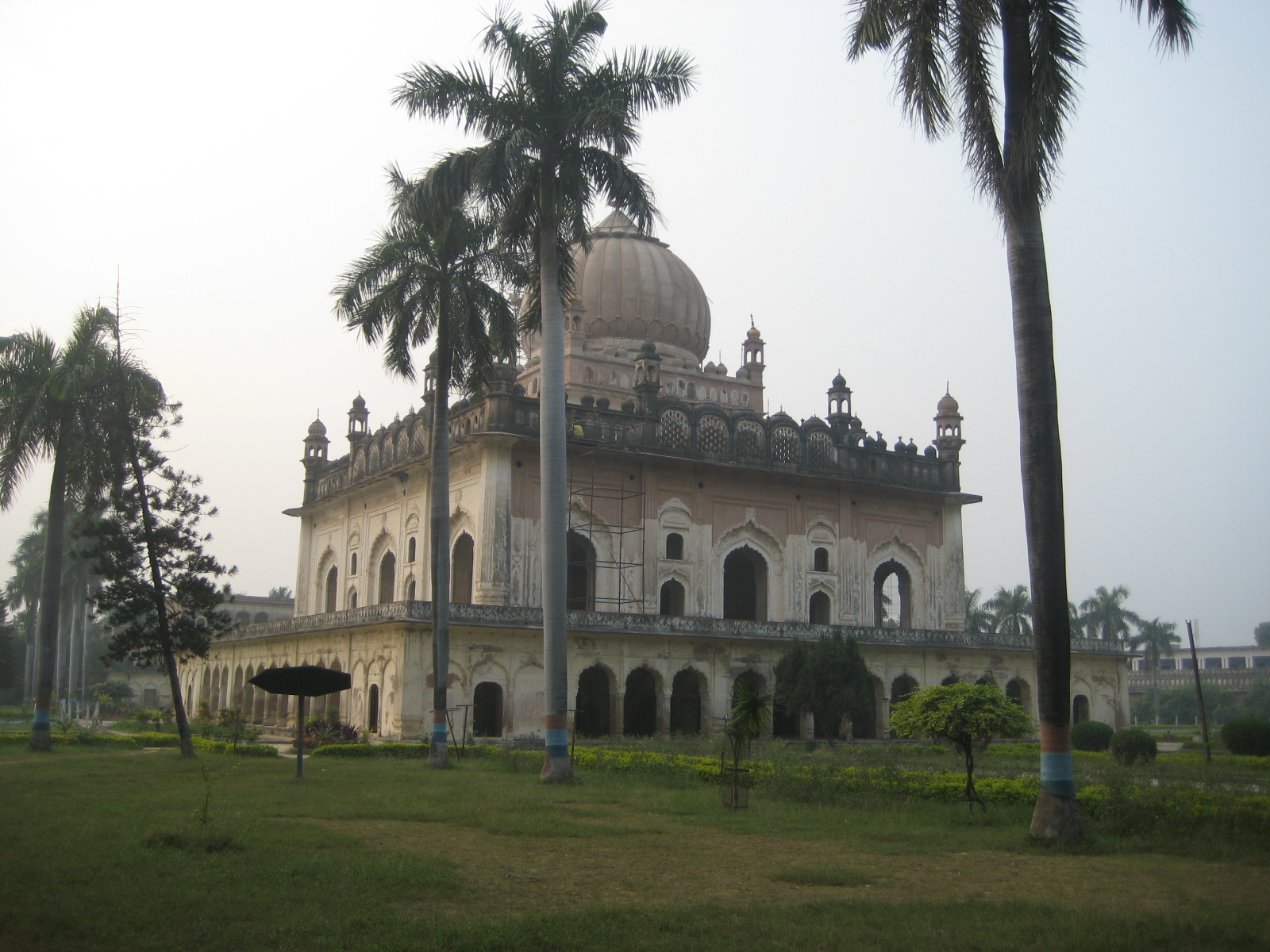 Gulab Bari, Mausoleum of Nawab Shuja ud Daulah, Faizabad, India